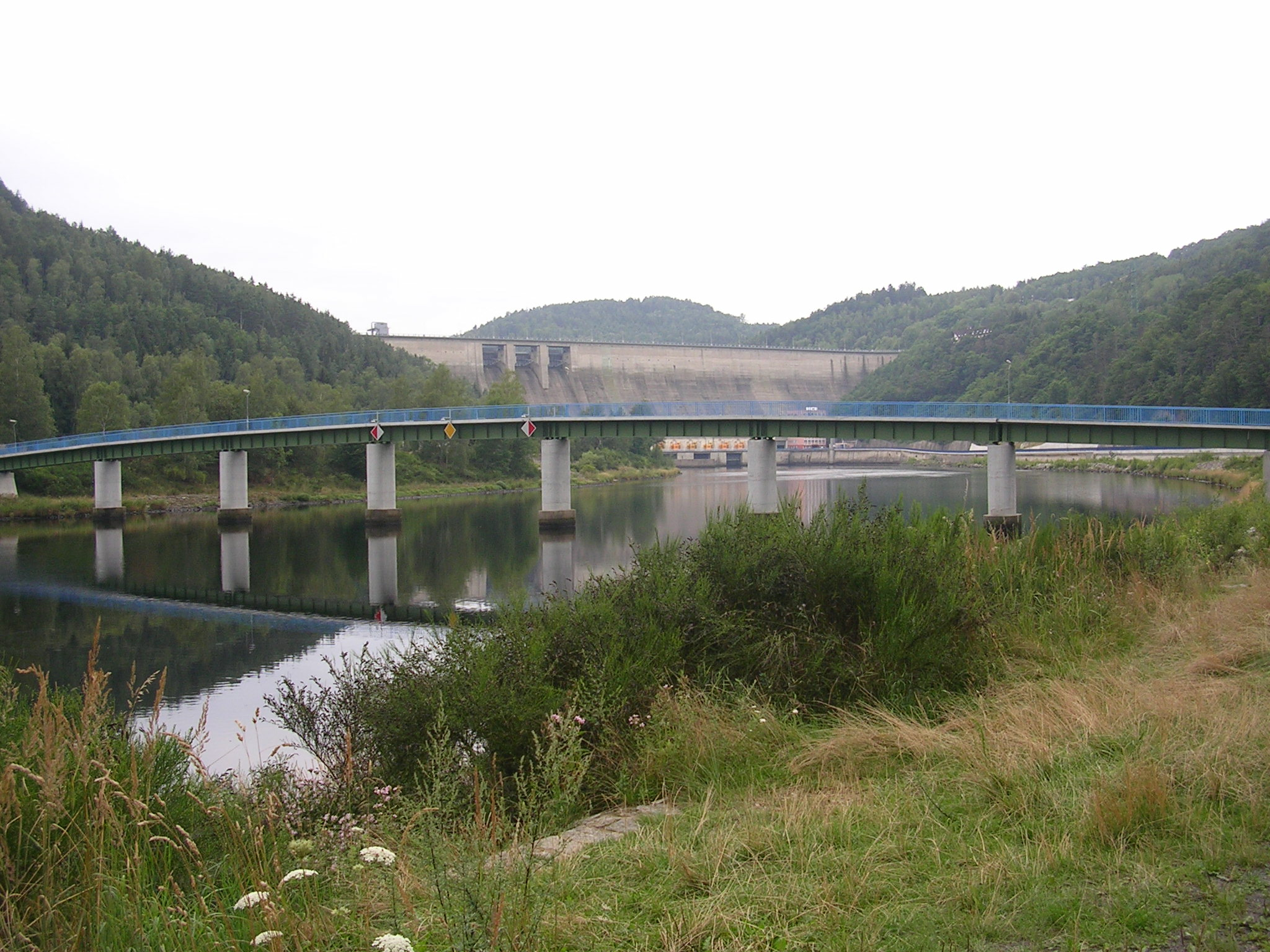 Footbridge near Solenice over Vltava River, the Czech Republic.